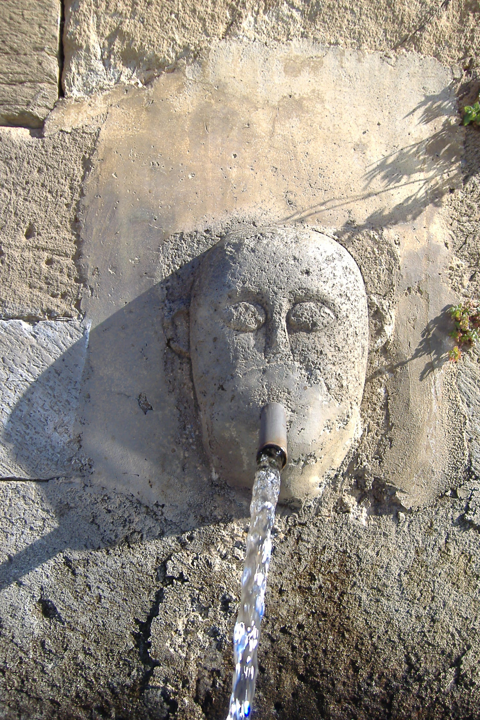 Celtic Sculpture un the Fountain of La Breña in Talaván (Extremadura, Spain)